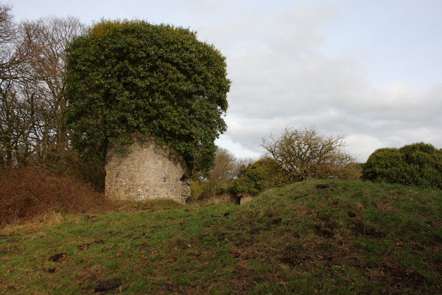 Motte and Tower. Part of summit Motte and ivy covered tower beside Rathconnell Castle